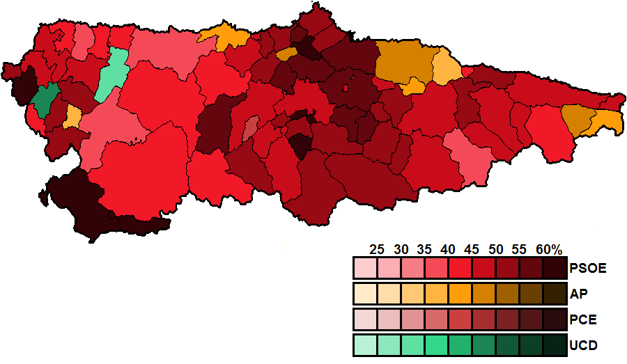 Most-voted party in Asturias municipalities, showing vote share obtained, in the Spanish general election, 1982.